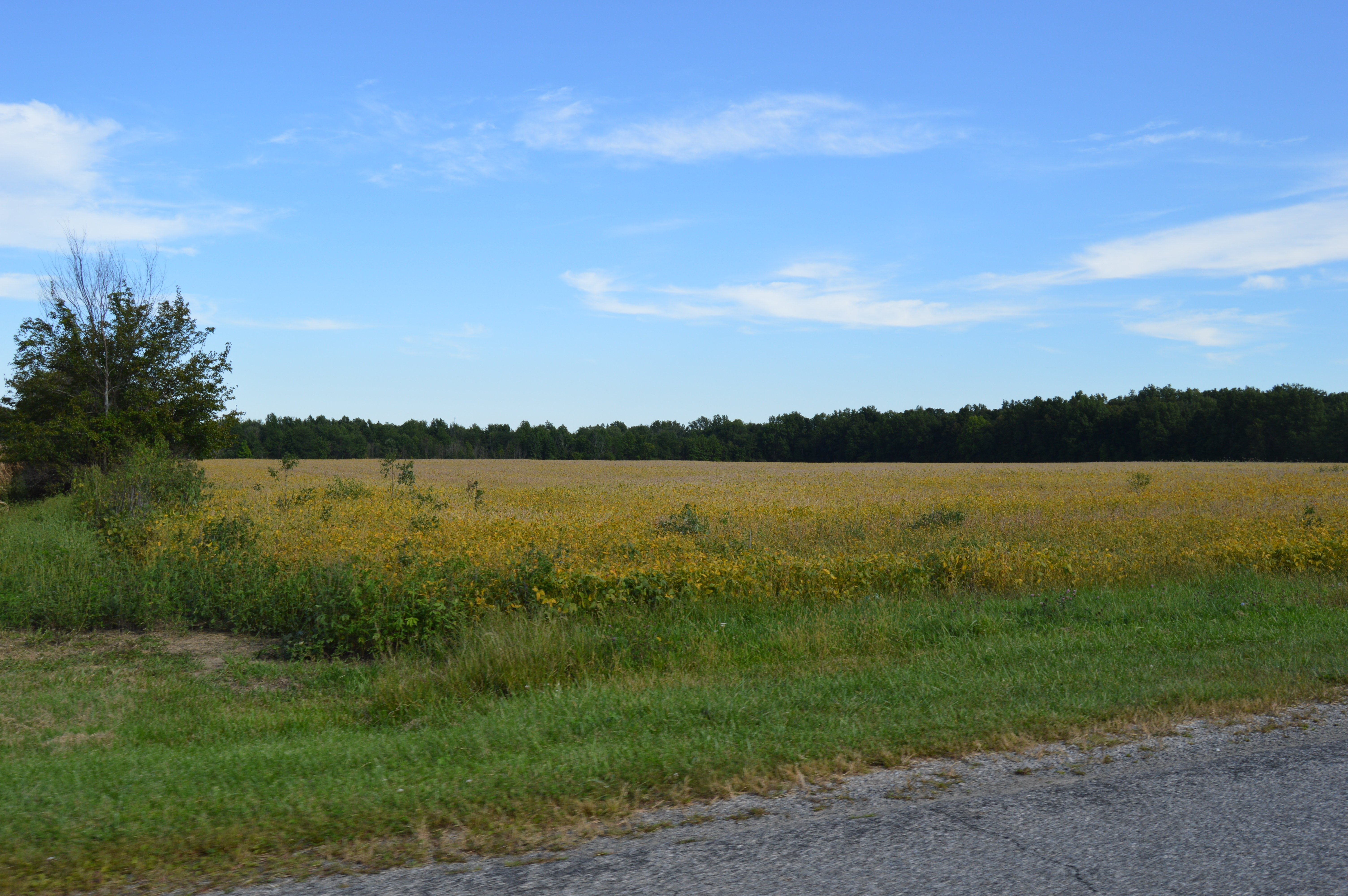 Fields on the eastern side of Veley Road in northwestern Brown Township, Delaware County, Ohio, United States.